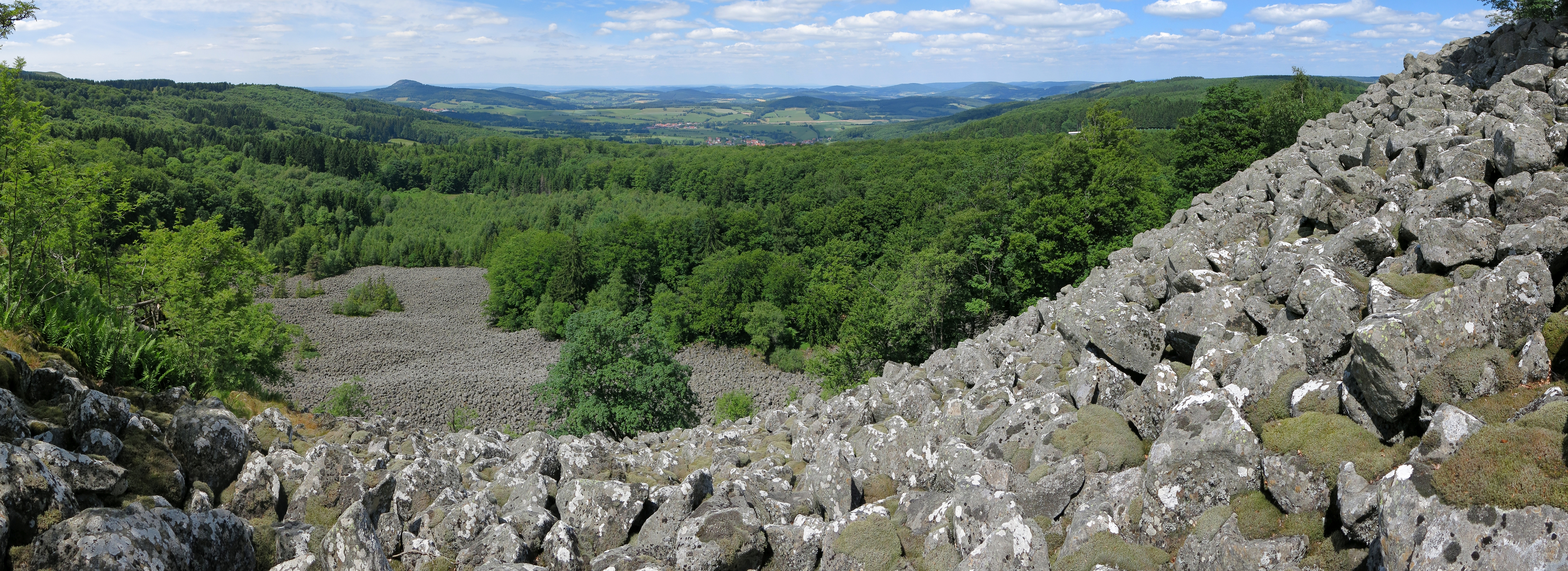 Northern stone run on Schafstein in the Rhön Mountains